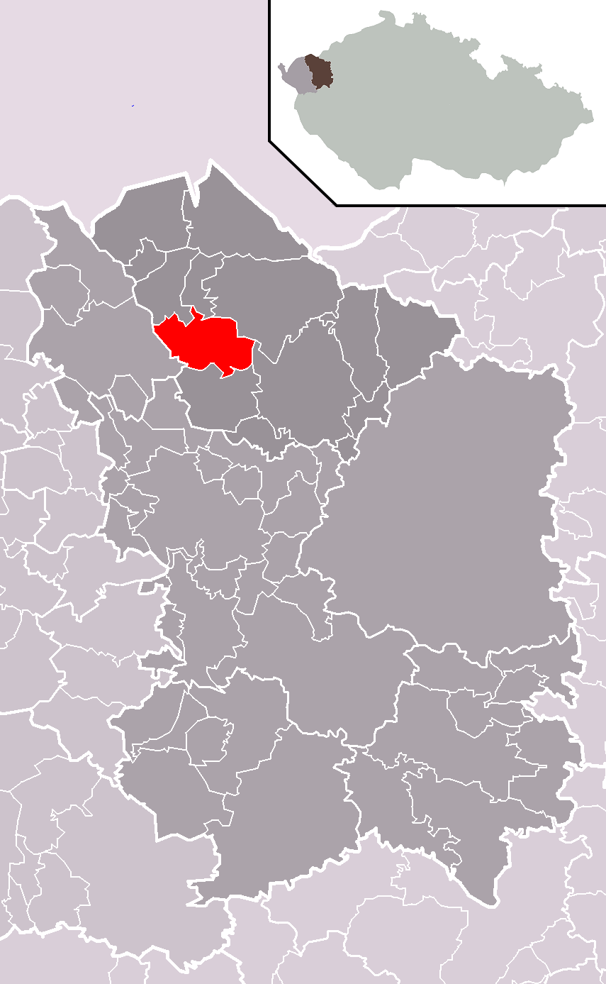 Location of Merklín municipality within Karlovy Vary District and administrative area of Ostrov as a Municipality with Extended Competence.